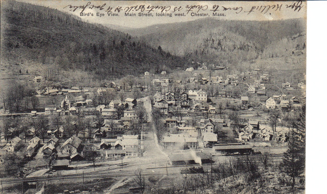 A postcard picture showing an aerial view of Chester, Massachusetts. Caption at top of picture states: "Bird's Eye View, Main Street, Looking West, Chester, Mass." A white band on the right was for the postcard message, since the undivided-back style mandated by U.S. postal regulations from 1901 to 1907 only allowed addresses on the opposite side of the postcard.